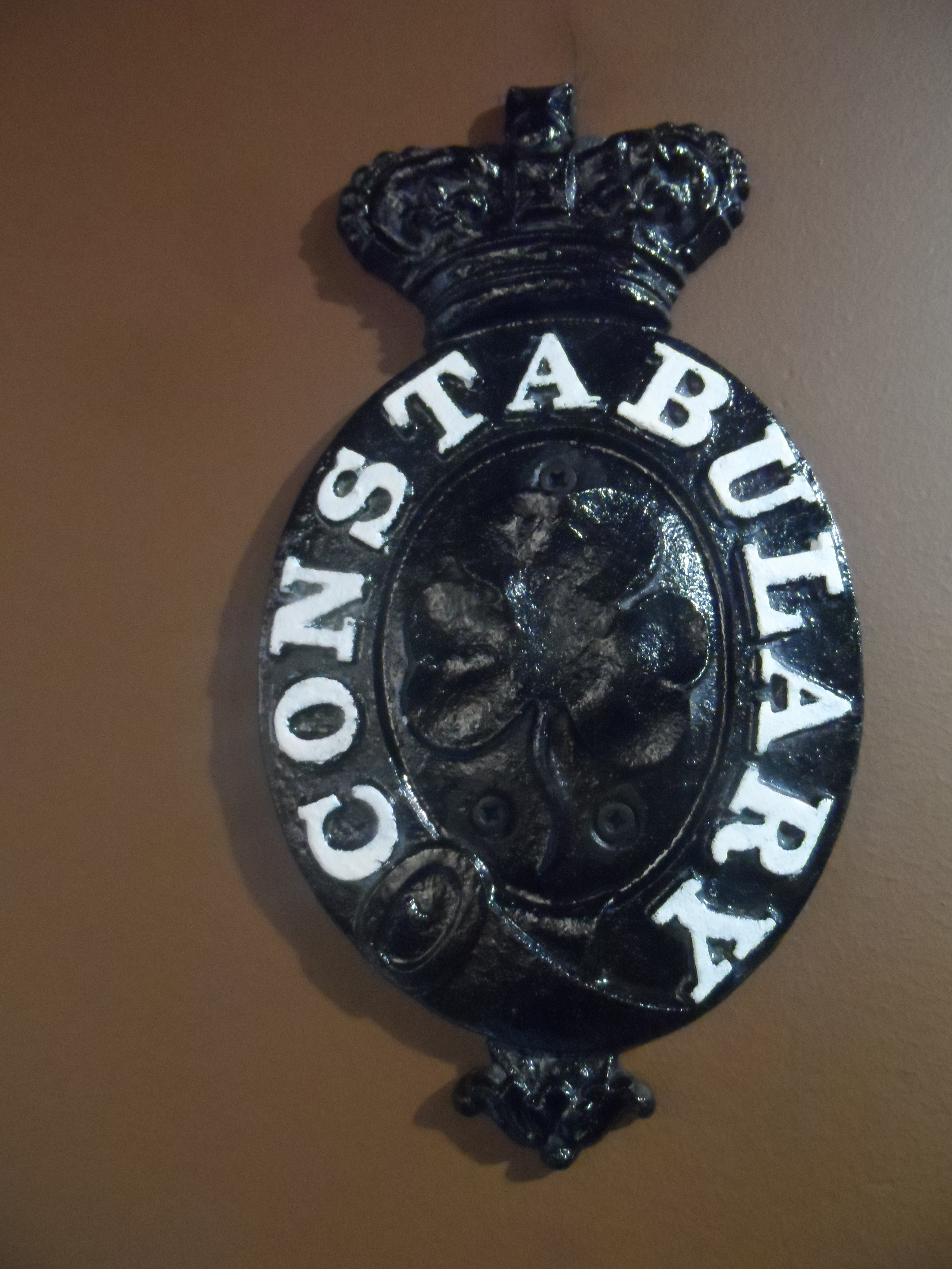 Irish Constabulary logo, Garda Museum